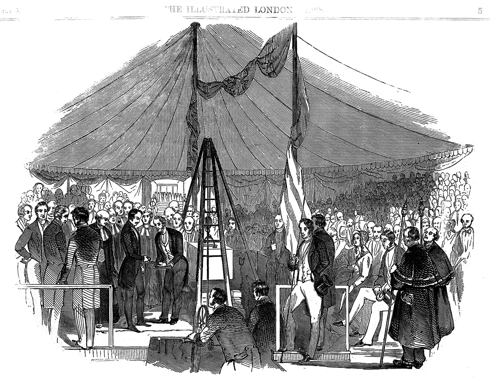 St. Mary's Hospital. Paddington. Prince Albert laying the foundation stone. Rare Books Keywords: Institutions; Hospitals